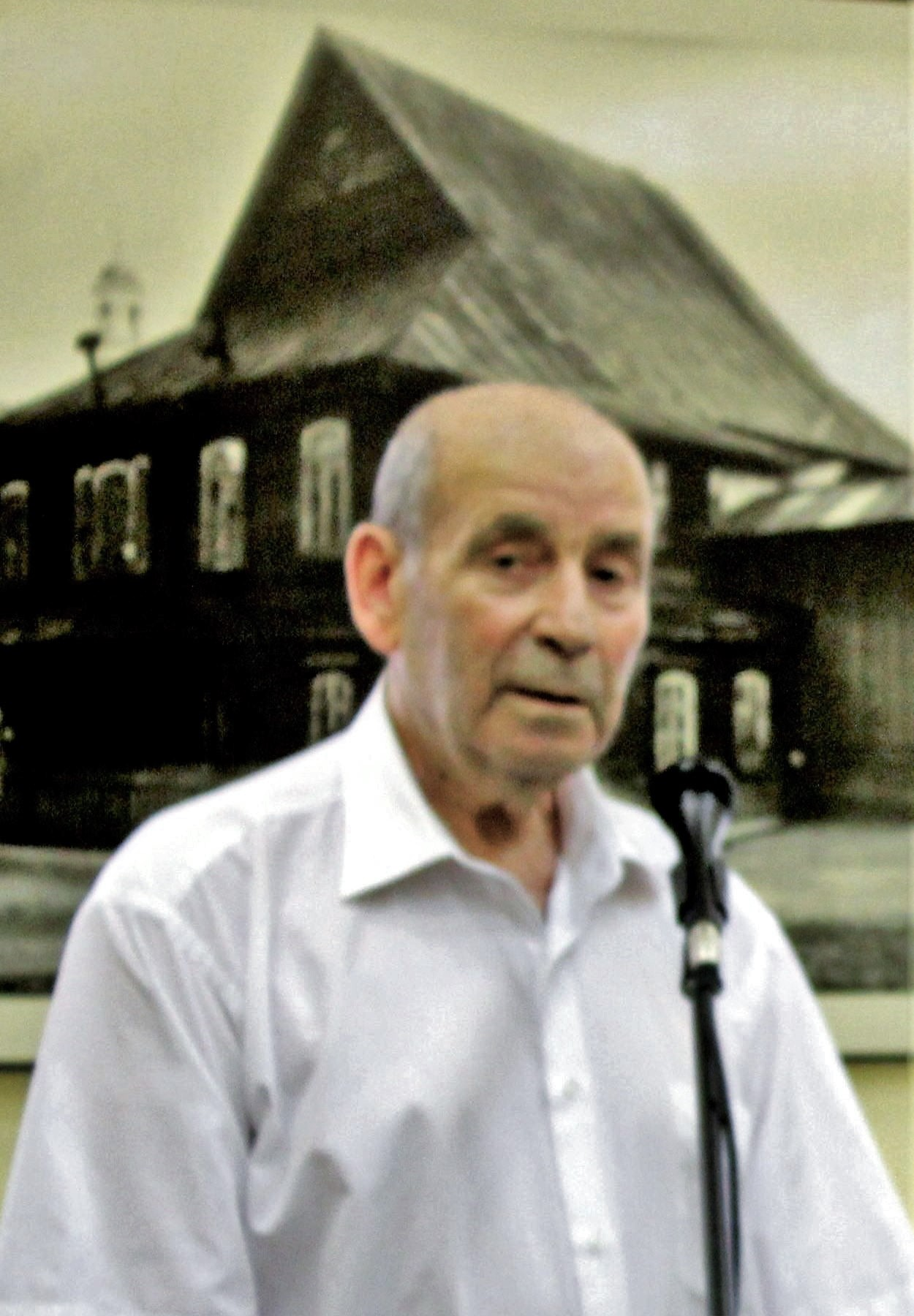 Belarusian architect Leonid Levin